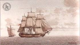 HMS Edgar in the Downs; (coloured engraving)